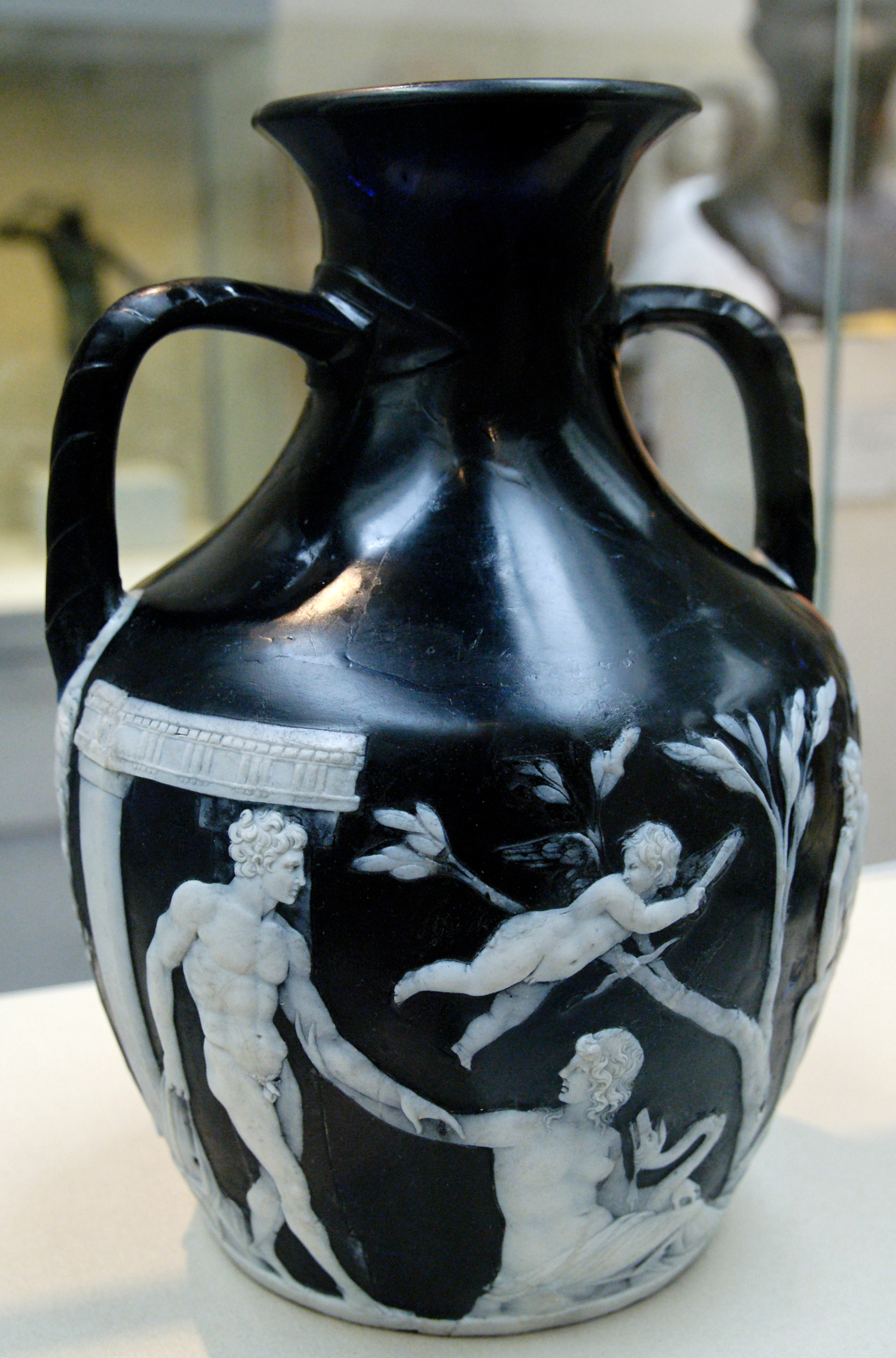 Wedding scene, detail of the side A of the Portland Vase. Cameo-glass, probably made in Italy ca. 5-25 AD.